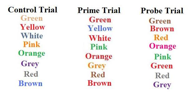 Experiment used to find negative priming